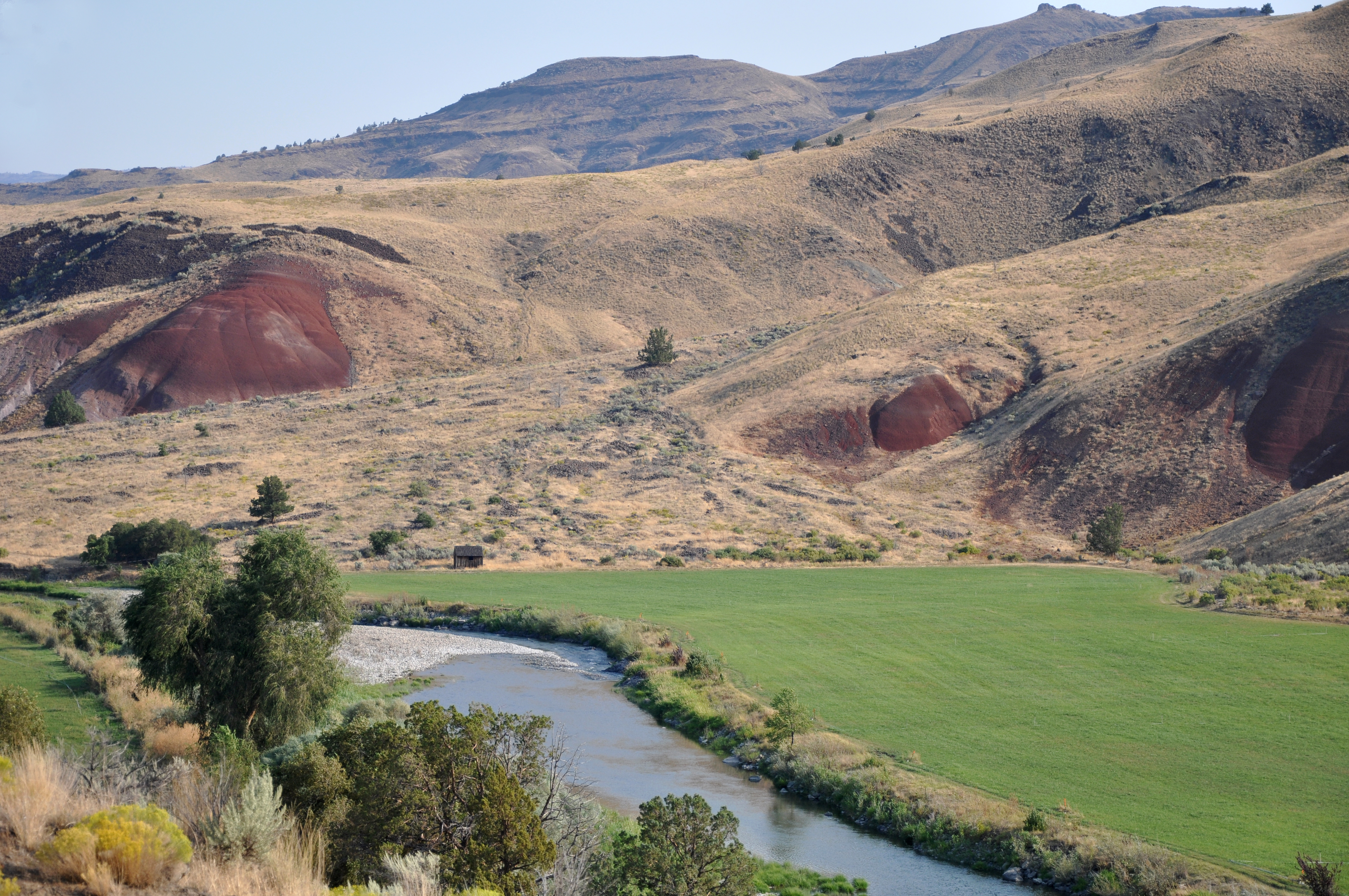 Fields across the John Day River at the James Cant Ranch Historic District in the U.S. state of Oregon. The district is part of the Sheep Rock Unit of the John Day Fossil Beds National Monument View is from the Sheep Rock Overlook Trail.